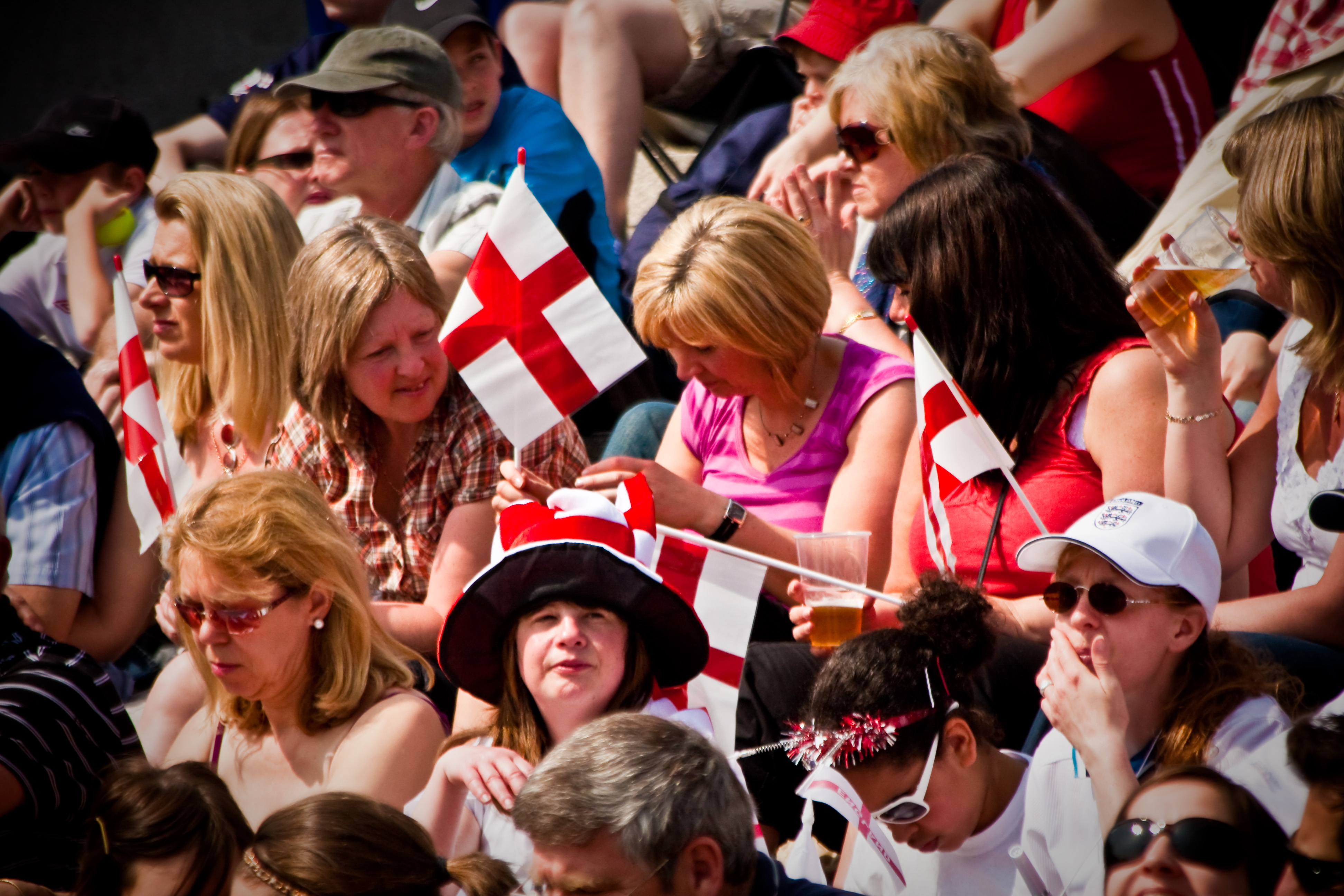 The crowd seemed to enjoy the St George's Day festival. I'd estimate the crowd at about 2,000, with many coming and going all day.